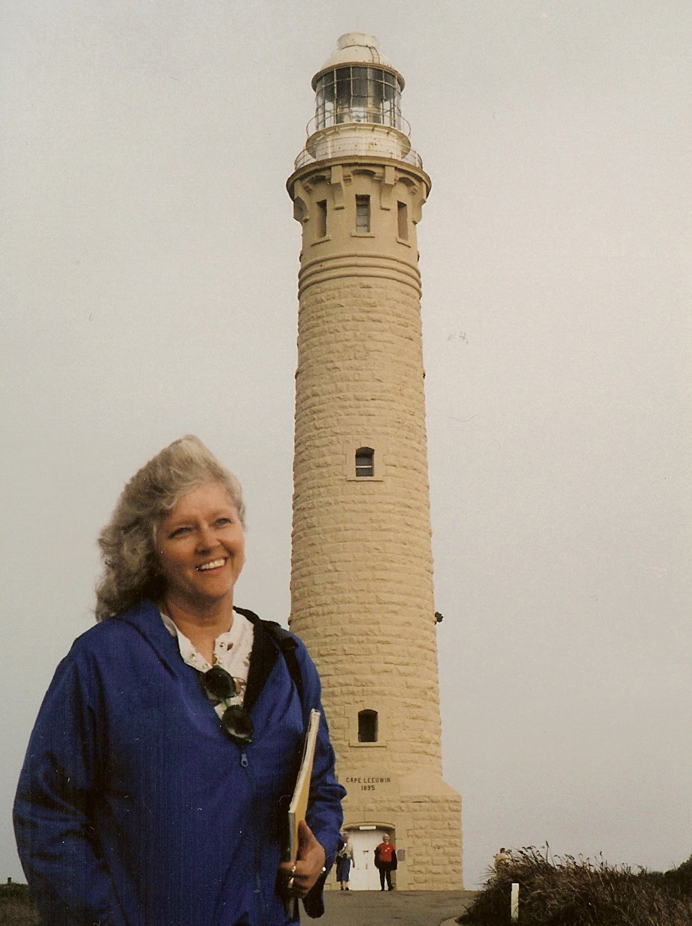 Elinor DeWire at Cape Leeuwin Lighthouse in Western Australia, 2000.